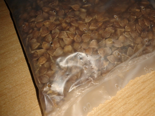 Kasha, roasted buckwheat groats, in plastic "boil-in-bag" pouch.